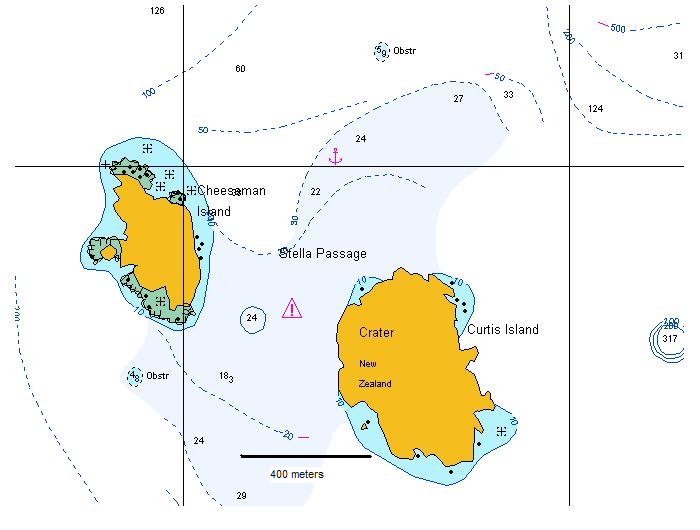 Map of Cheesman and Curtis Island, Kermadec Islands, New Zealand